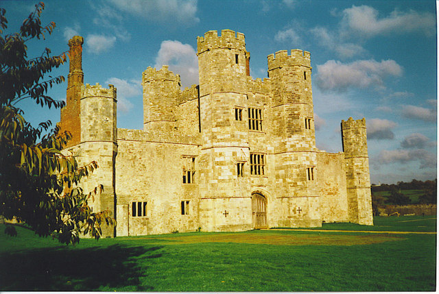 Titchfield Abbey. Wriothesley's Tudor gatehouse - a vital symbol of seigneurial power for an early 16th century courtier's house, cuts through the nave of the canons' church seen left and right of the tower.